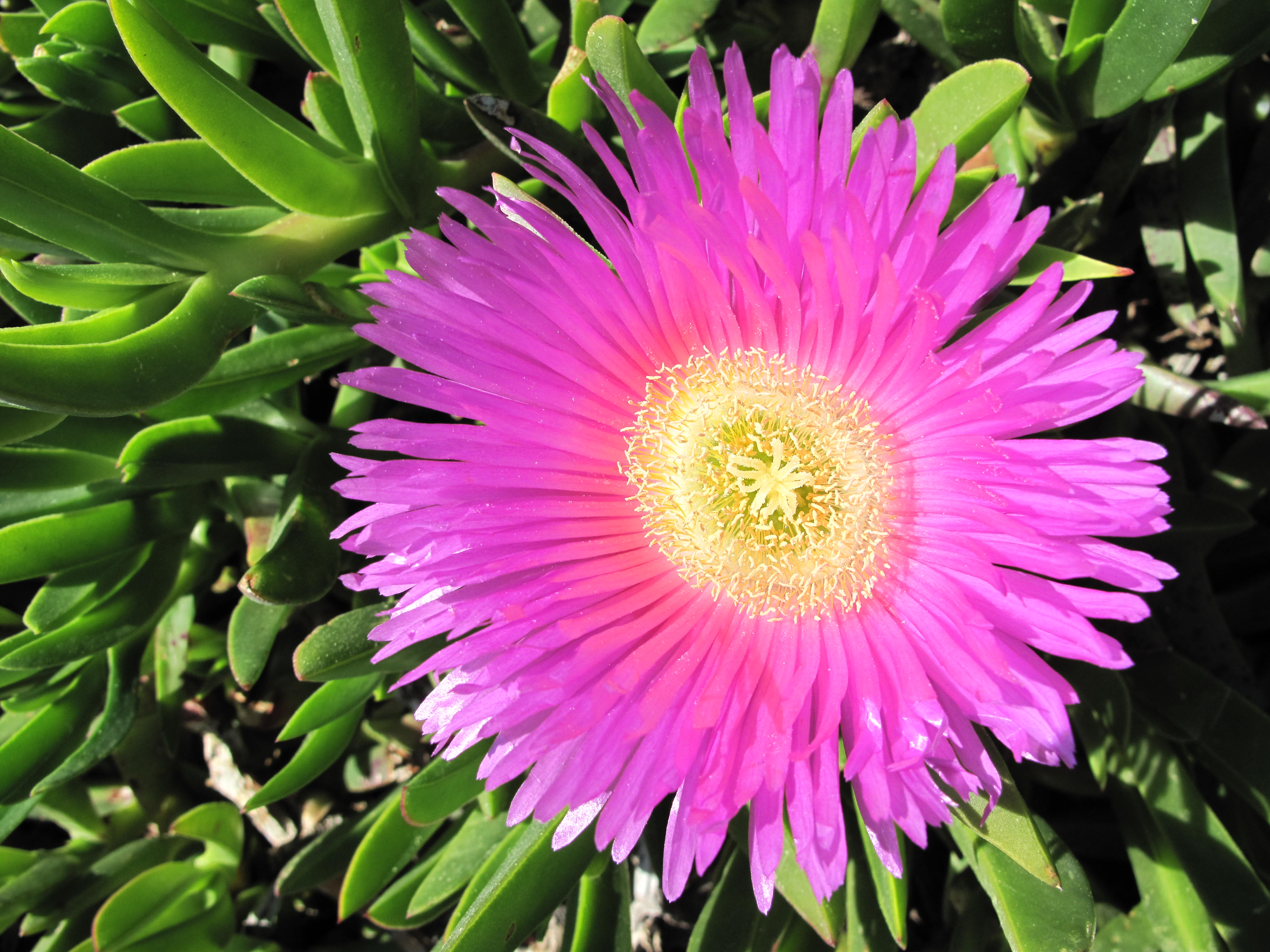 Flower of Carpobrotus edulis in Cap-Ferrat, France